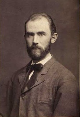 Reinhold Frederik Severin Mejborg (1845-1898), Danish archaeologist, draftsman, and writer